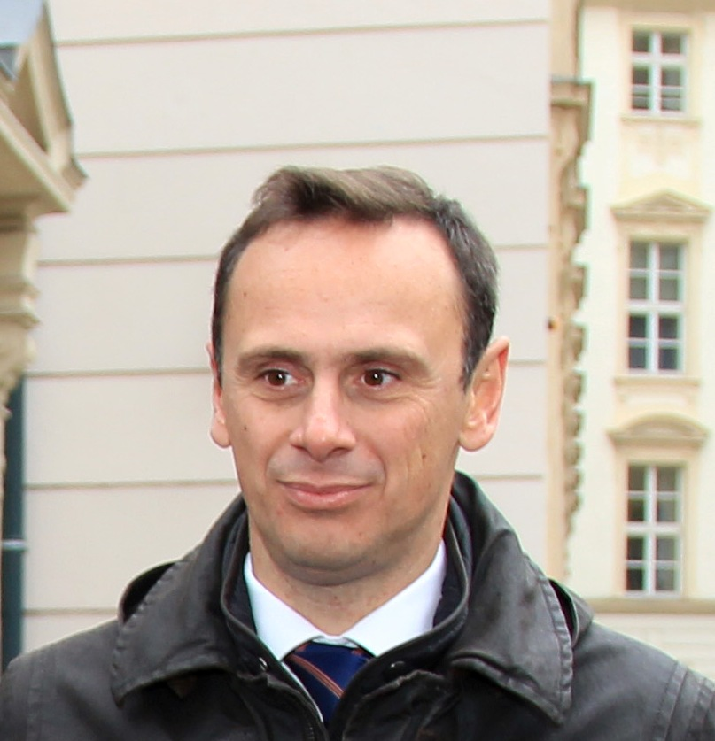 Jochen Danninger, former state secretary at the Austrian Federal Ministry of Foreign Affairs.